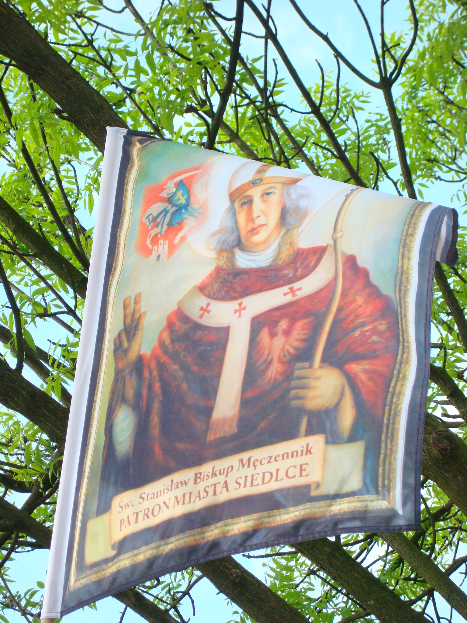 Holy fair Stanisław in Siedlce